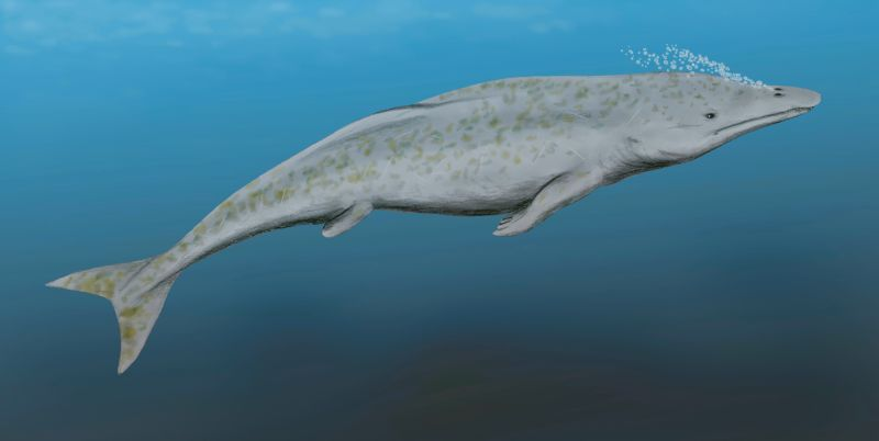 Protocetus atavus, an early whale from the middle Eocene of Egypt, pencil drawing, digital coloring